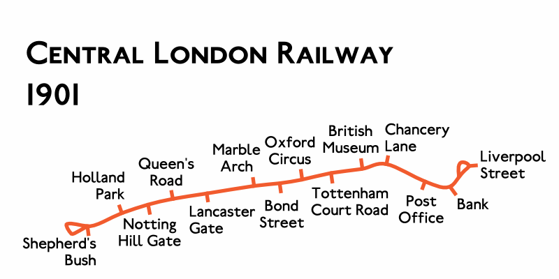 Geographic Map of the Central London Railway as planned in 1901.